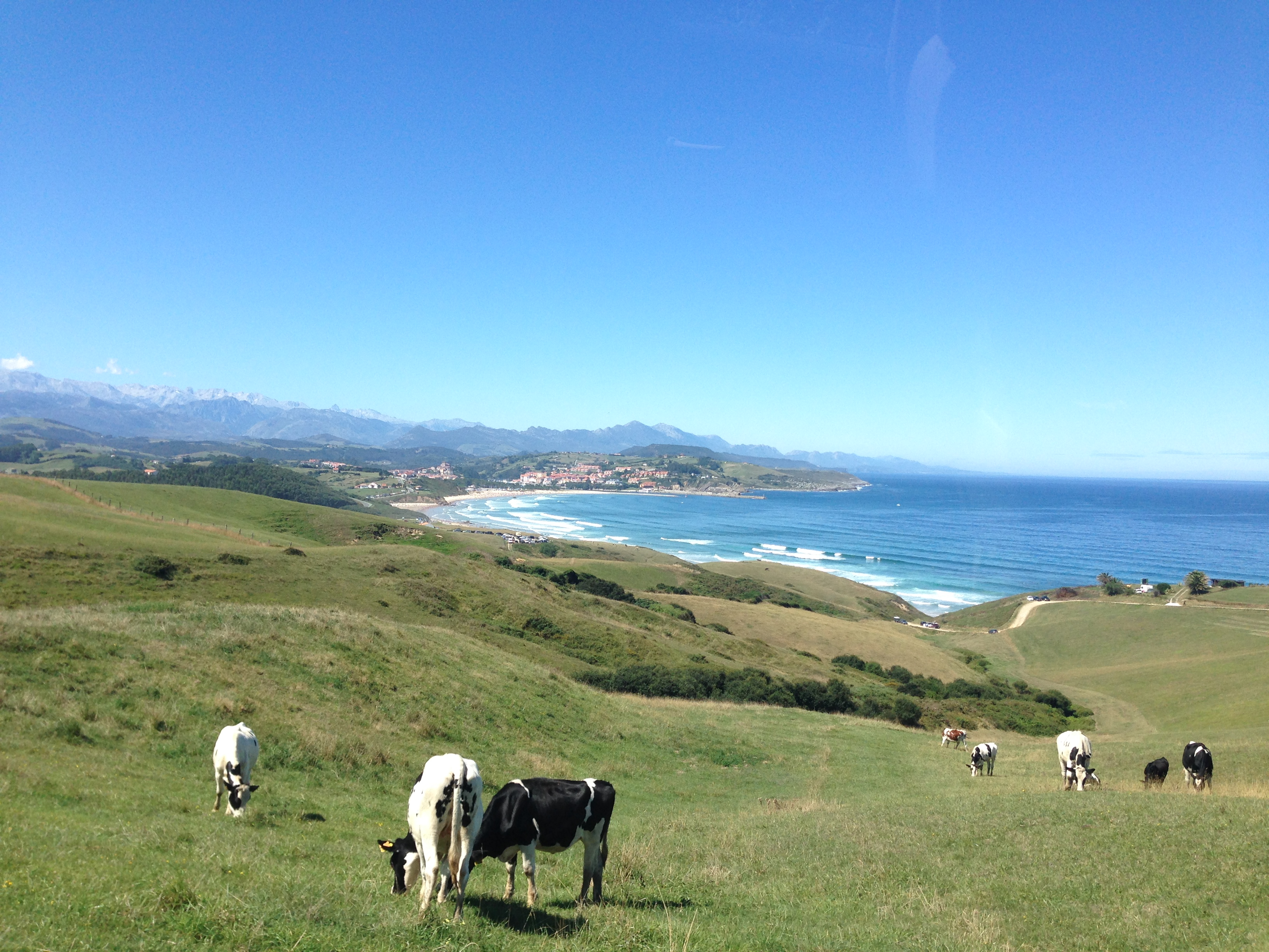 View of the beach of Gerra, in Comillas, Cantabria (Spain).